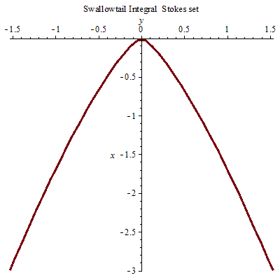 Swallowtail integral Stokes set 2